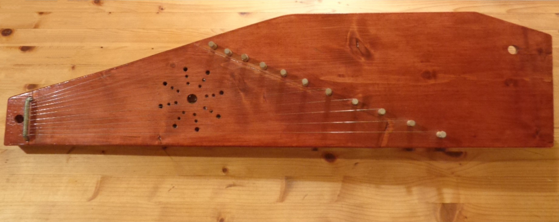 Self-made 11-string Latgale kokle with aspen body, fir soundboard and oak tuning pegs.